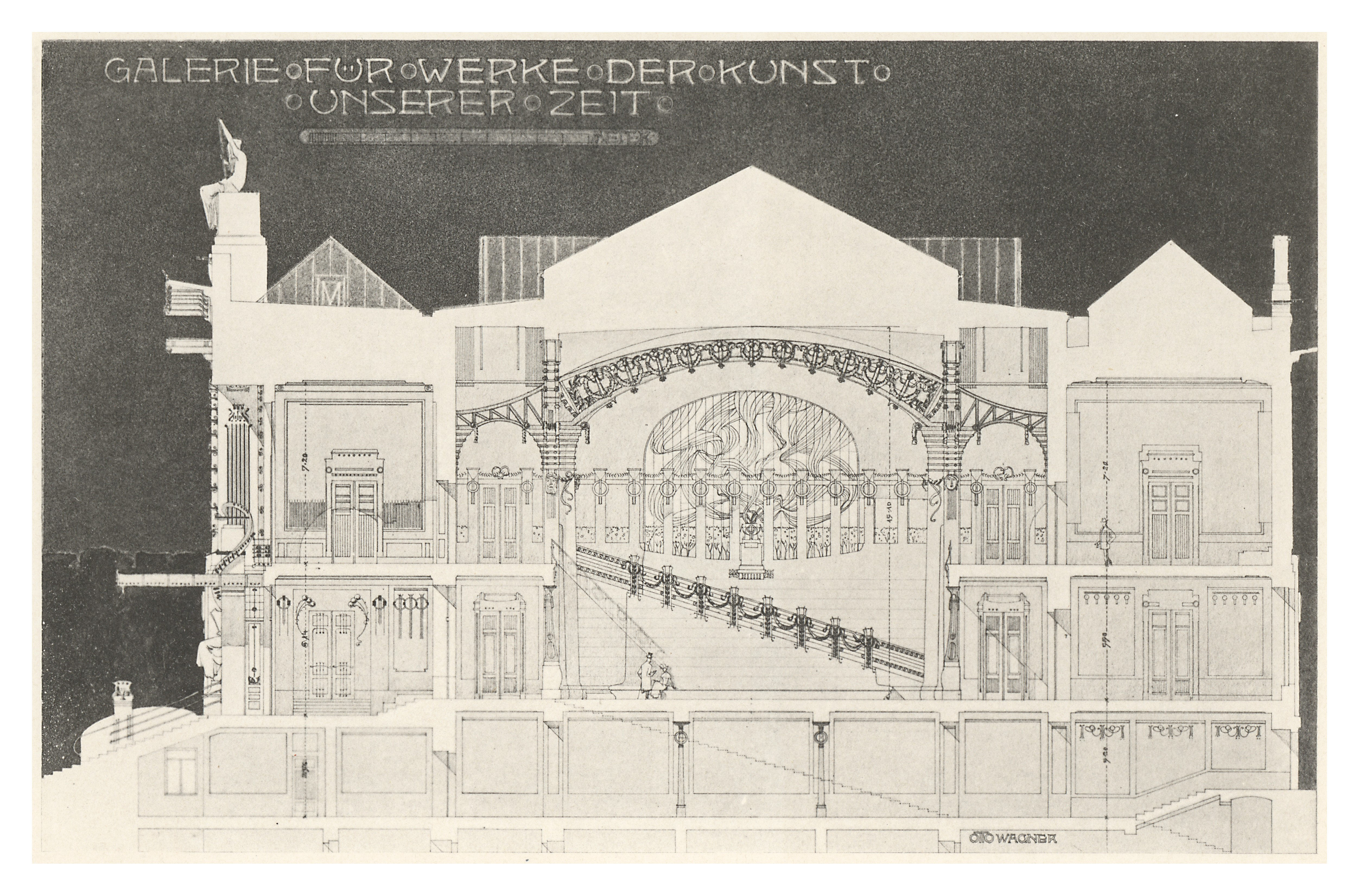 Galerie für die Werke der Kunst unserer Zeit, Bd. III 2. Heft Concept, not realized Scanprojekt Bundesdenkmalamt Österreich This scan or this PDF-file was created within the Austrian Wikipedia-project Denkmalpflege Österreich (German only) supported by Wikimedia Germany and Wikimedia Austria as part of the Wikipedia community-project to collect public domain documents from the library of the Heritage Monuments Board of Austria. This document describes or depicts an object which is located in Austria today. Send requests for uncompressed scans to Hubertl. This work is in the public domain in the United States, and those countries with a copyright term of life of the author plus 100 years or less. This file has been identified as being free of known restrictions under copyright law, including all related and neighboring rights.